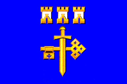 Flag of Ternopil oblast (since November 2003)